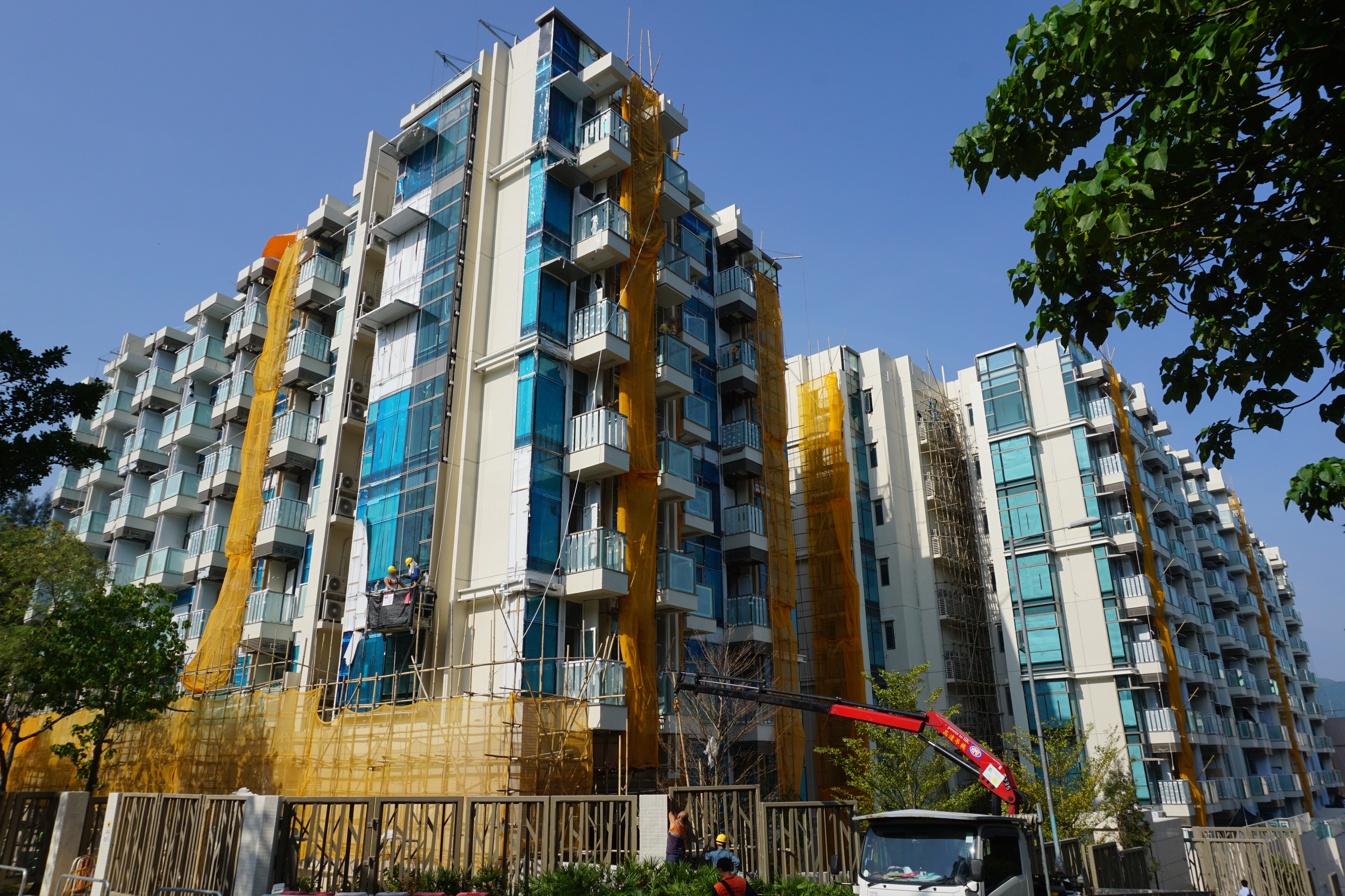 Park Mediterranean in Sai Kung, Hong Kong.